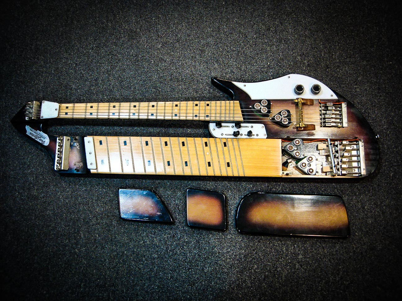 The Bunker Touch Guitar a double neck stringed musical instrument designed to be played exclusively by touch or tapping, was originally called the DuoLectar, as seen here (U.S. Patent #2,989,884 granted in 1961). The DuoLectar is the second patented stringed instrument in America. In 1960, it was the first double neck, and/or single neck touch/tapping instrument to be performed nationally on the TV show Ozark Jubilee. The dual neck DuoLectar Touch Guitar built by Dave Bunker in the late 1950s, was eventually awarded seven U.S. patents. These electronic muted instruments were internationally known after 1994 as Bunker Touch Guitars. (Photo taken by Dave Bunker.)